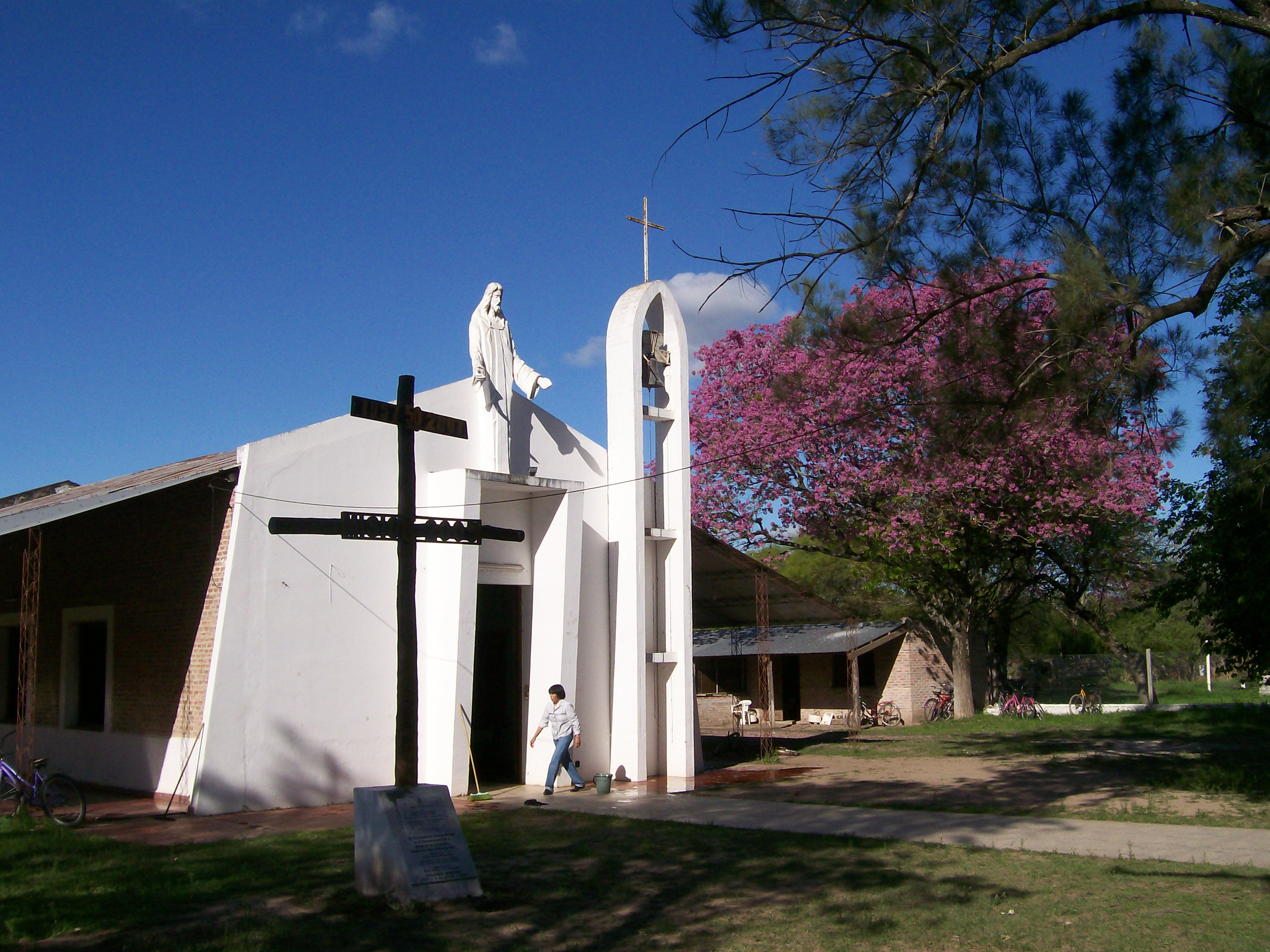 Main catholic chapel in Colonia Benítez, Chaco Province, Argentina.